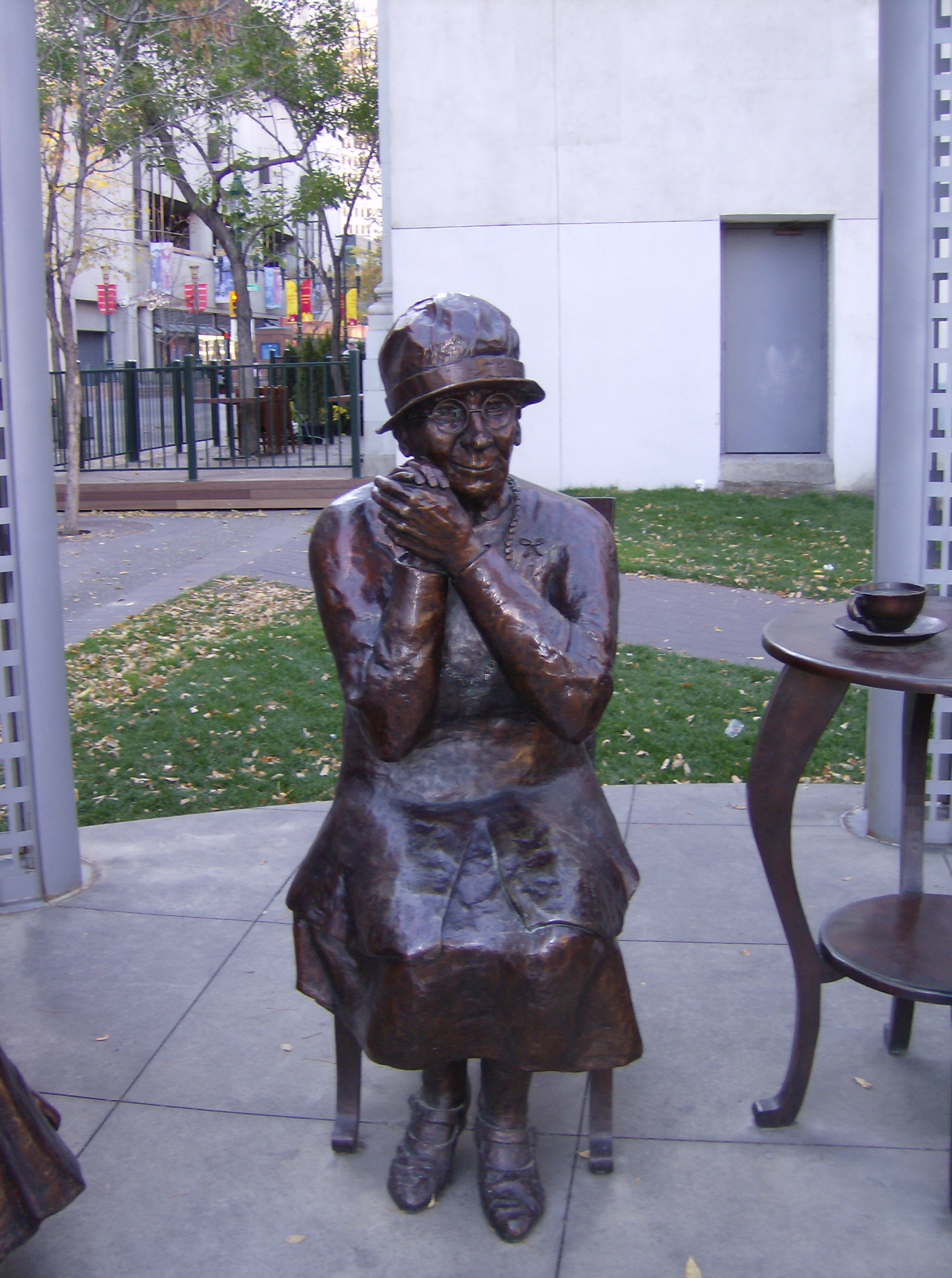 A statue of Louise McKinney, a part of a monument for the Famous Five. The monument is located at Olympic Plaza, Calgary, Alberta, Canada.